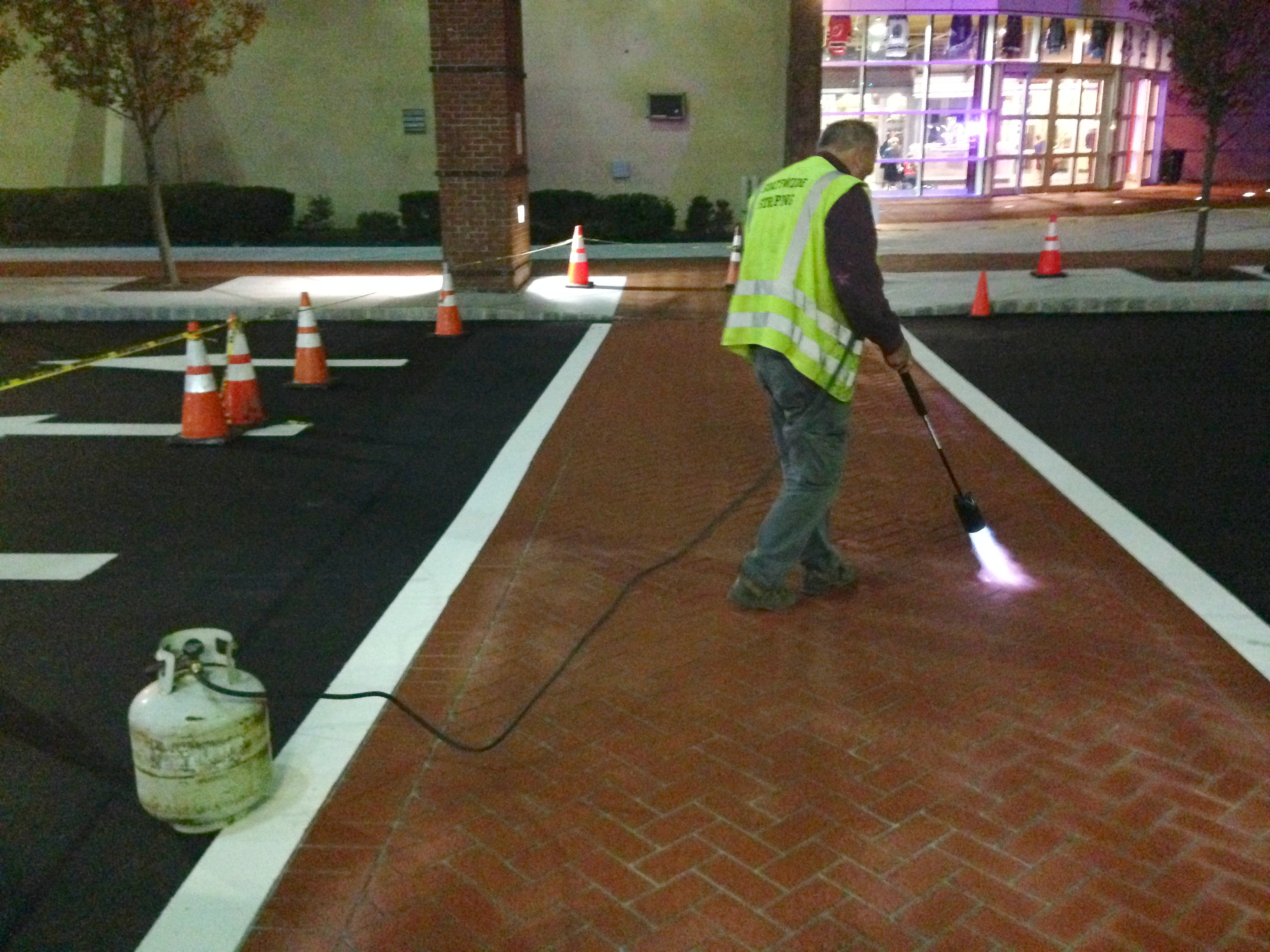 A worker uses propane torch to speed cure the colored polymer cement slurry that has been applied over a brick stencil to create a decorative crosswalk. The steps of crosswalk construction include spraying a layer of gray polymer cement slurry to the crosswalk area, placing brick pattern stencil and spraying terra cotta tinted slurry (notice the gray and terra cotta colors that show brick appearance). Then heat is applied to speed cure the surface.